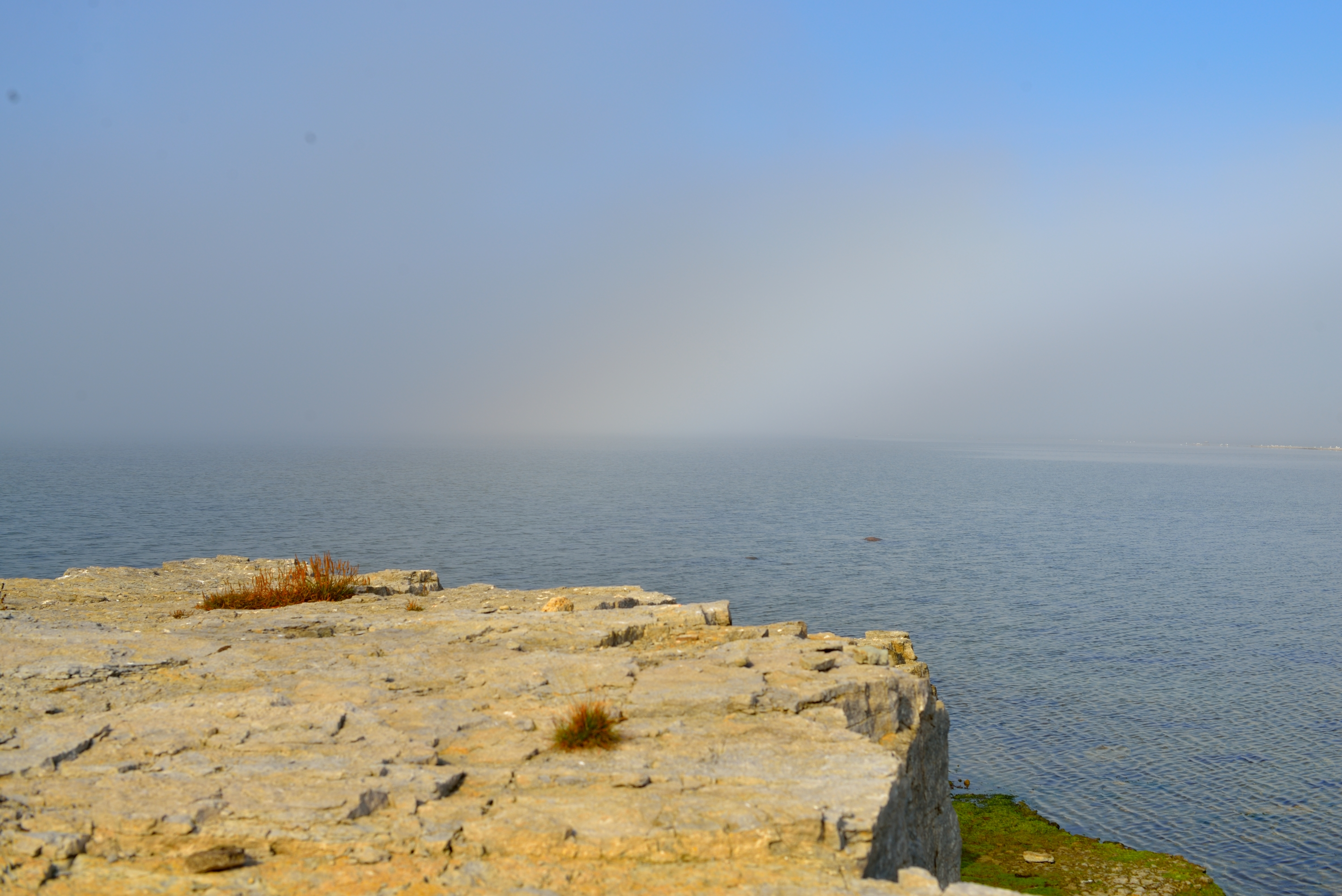 Sea and rainbow view from Undva Cliff on the autumn foggy morning (Saaremaa)